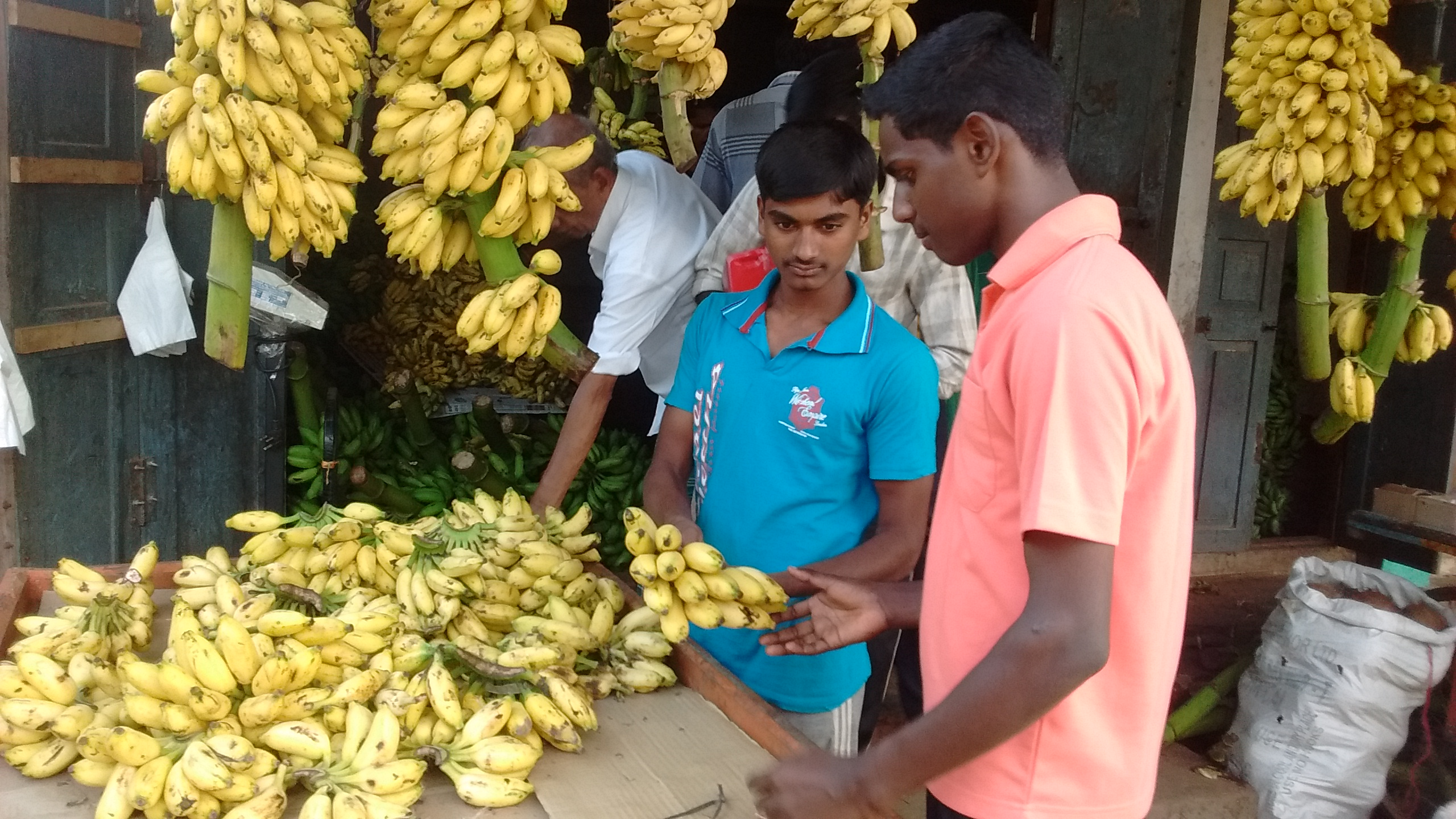 Customers buying NanjanaGuudu Bananas from a Bananas from a Banana Mandi in Sargur.